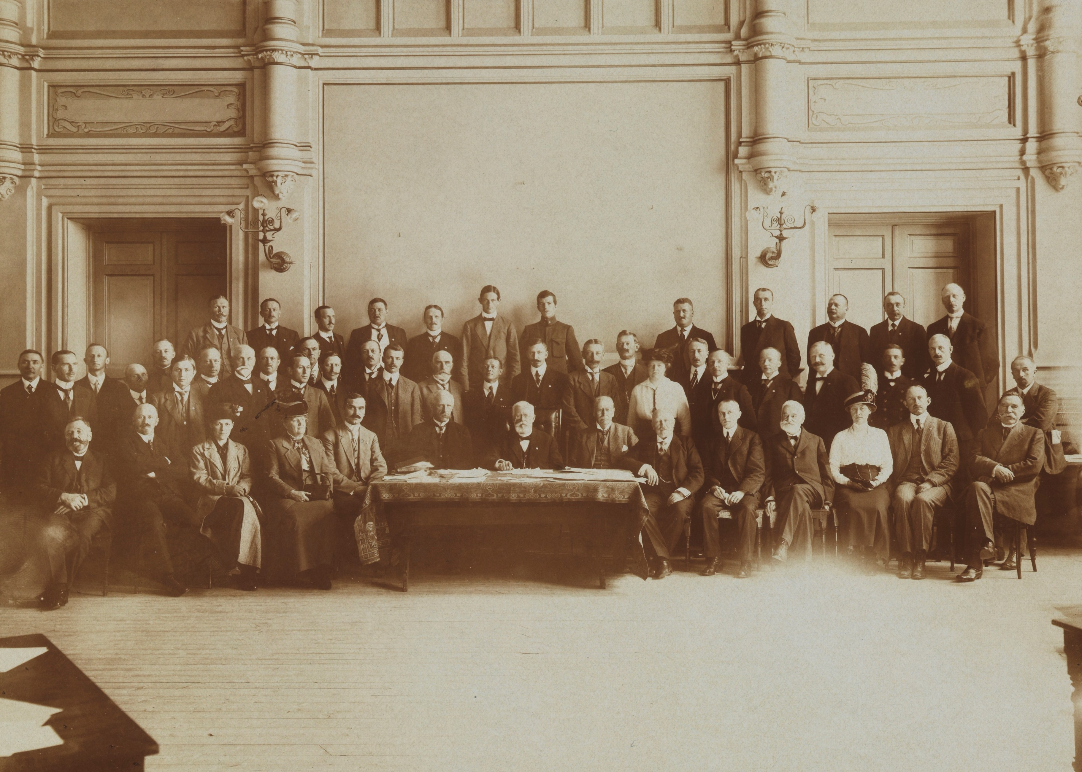 Norges Forsvarsforening (Norwegian Defense Organization), national meeting June 11, 1915, where representatives from different organizations met at Det Militære Samfund (The Military Society). In the front row from the left, Bankmanager Jens Ludvig Andersen-Aars; second, Commodore Alfred Berglund; fifth, officer, general secretary in Norges Forsvarsforening Anders Larsen Vethe; sixth Fridtjof Nansen (the following day he was elected president, replacing Drolsum), seventh, Head Librarian Axel Charlot Drolsum, president of Norges Forsvarsforening; eighth Professor Dr Otto Andreas Andersen, vice president of Norges Forsvarsforening.